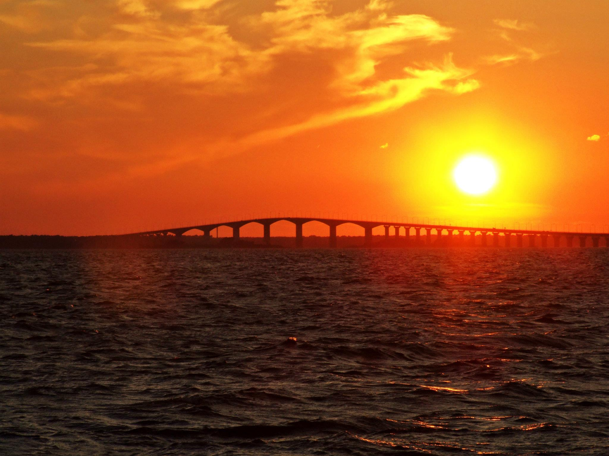 Ölandsbron från Färjestaden